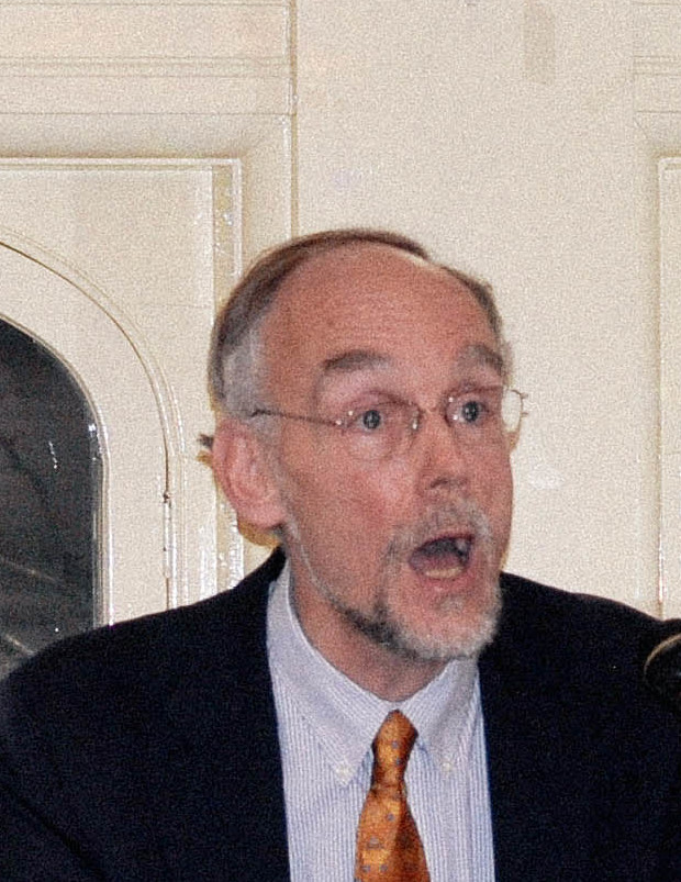 T.S. Eliot and the Mind of Europe: A Celebration of The Poems of T.S. Eliot: The Annotated Text (eds. Christopher Ricks and Jim McCue). Participants include Bill Coyle, David Ferry Saskia Hamilton, George Kalogeris, Karl Kirchwey, Christopher Ricks, Meg Tyler, and Alissa Valles. At the Boston University Castle. Thursday, April 7, 2016.